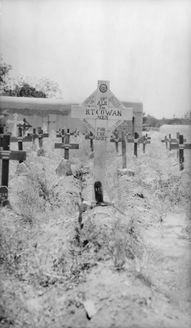 Photograph of Damascus graveyard October 1918 Other information Copyright expired access unrestricted